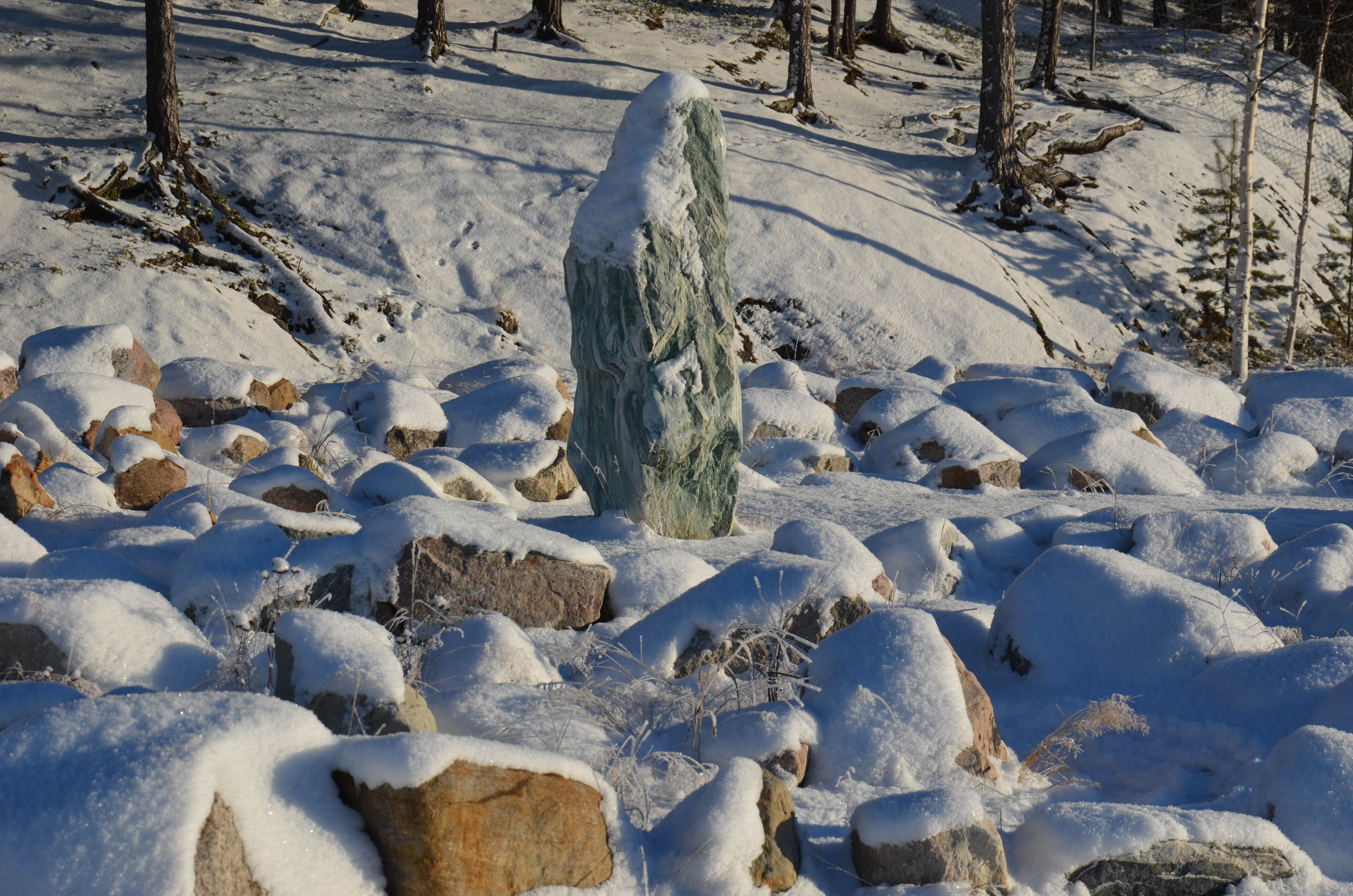 Hilde Skancke Pedersens Gäst